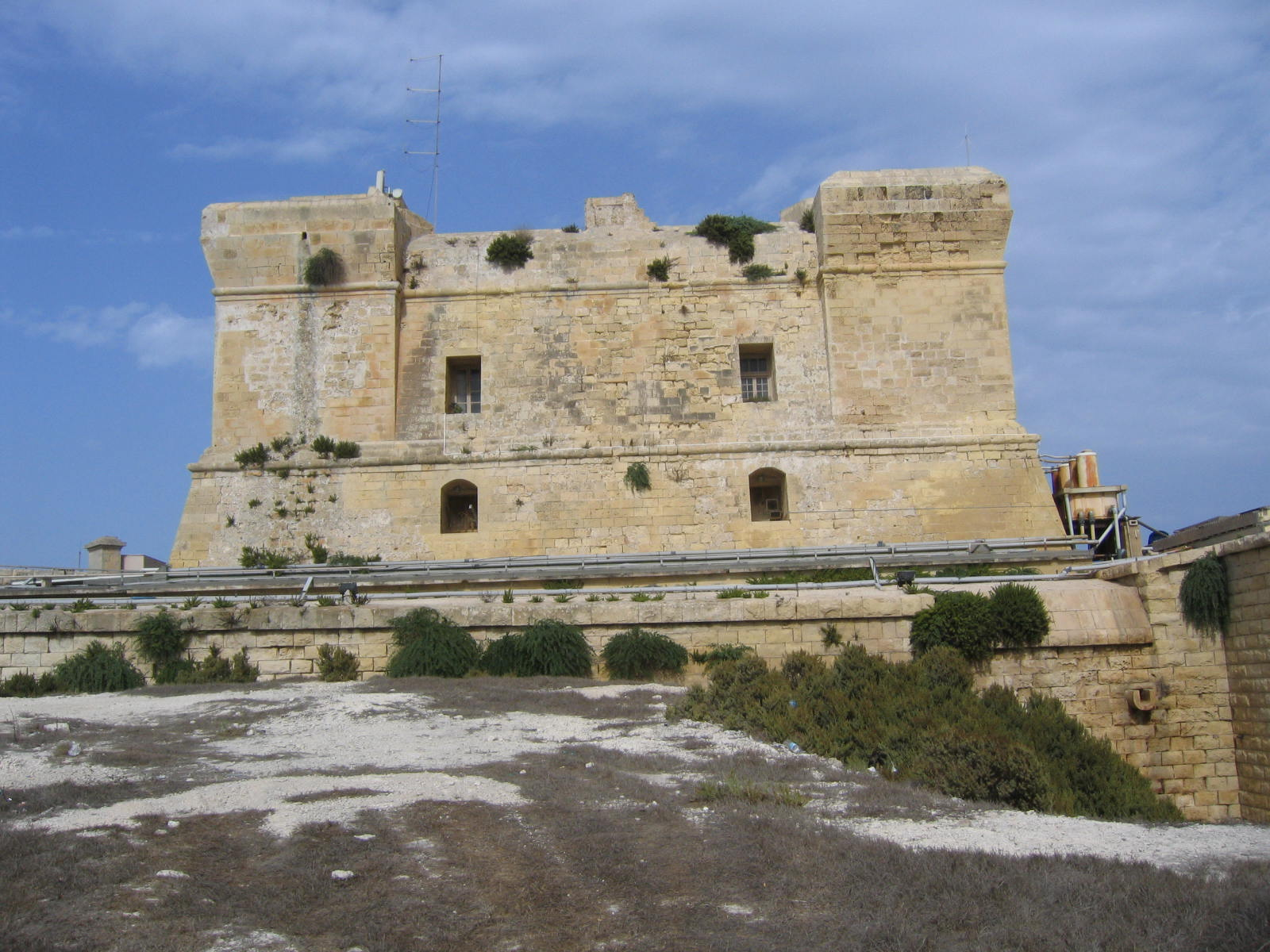 St Lucian's Tower, Marsaxlokk, Malta. South Aspect. Copyright H.J.Moyes September 2005.